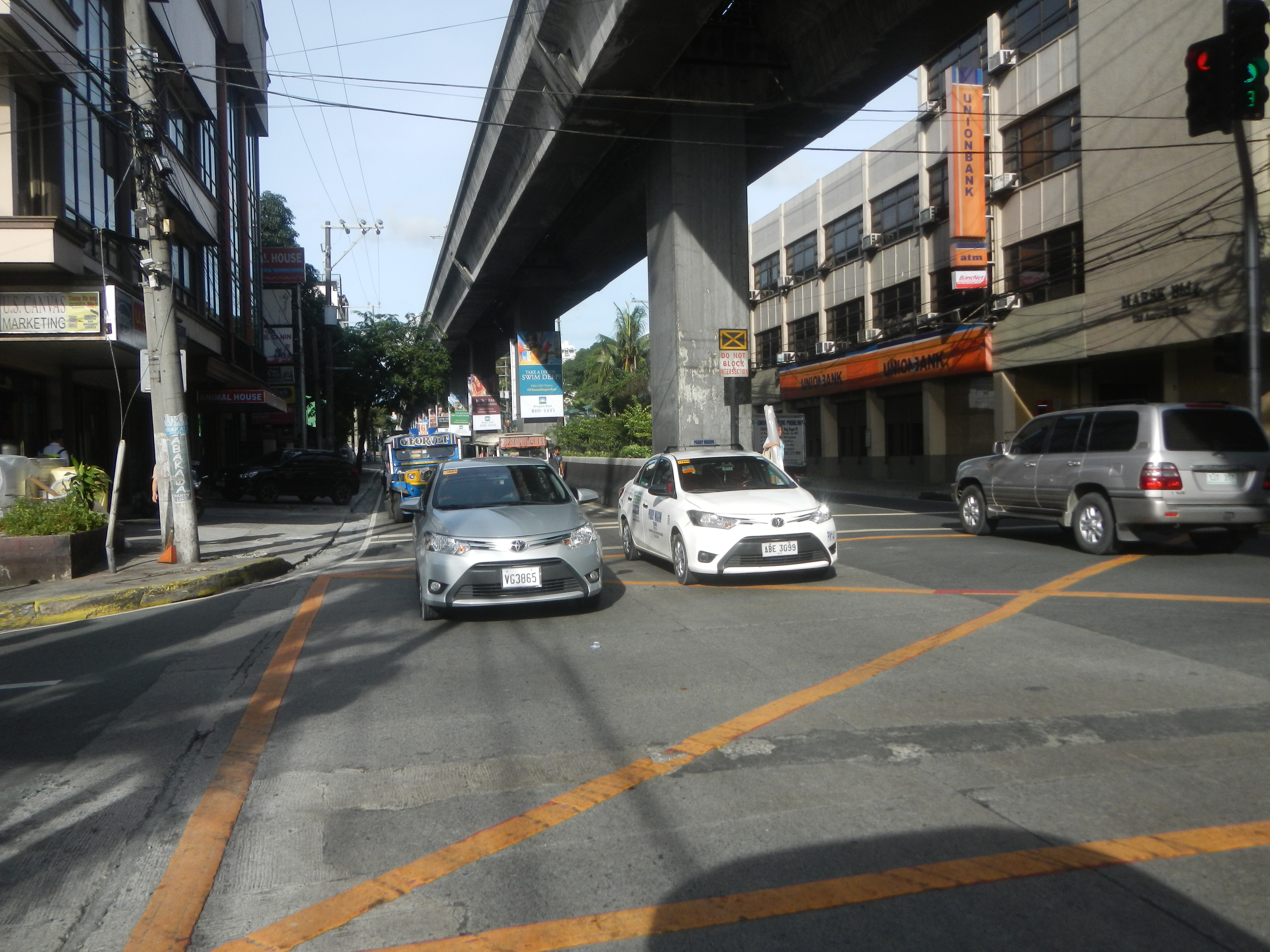 Major roads in Metro Manila E. Rodriguez, Sr. Avenue corner Betty Go-Belmonte Street towards Aurora Boulevard in Betty Go-Belmonte LRT Station in the List of barangays of Metro Manila, Legislative districts of Quezon City Districts 4, Barangays of Quezon City, Barangay Immaculate Conception (Betty Go-Belmonte), Mariana, Kaunlaran, Valencia, Cubao and New Manila, Quezon City Balete Drive Haunted highway List of haunted locations in the Philippines Major roads in Metro Manila (Note: Judge Florentino Floro, the owner, to repeat, Donor Florentino Floro of all these photos hereby donate gratuitously, freely and unconditionally all these photos to and for Wikimedia Commons, exclusively, for public use of the public domain, and again without any condition whatsoever).